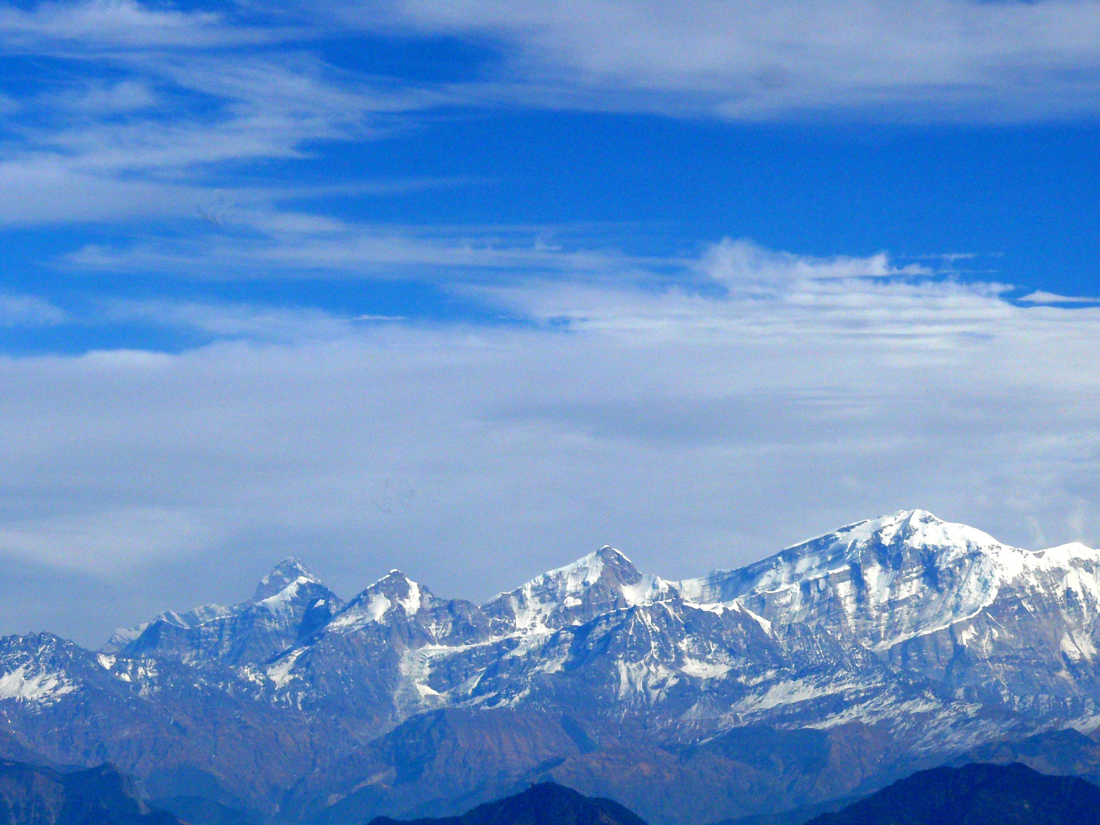 Nanda Devi and Trishul from Kartik Swami